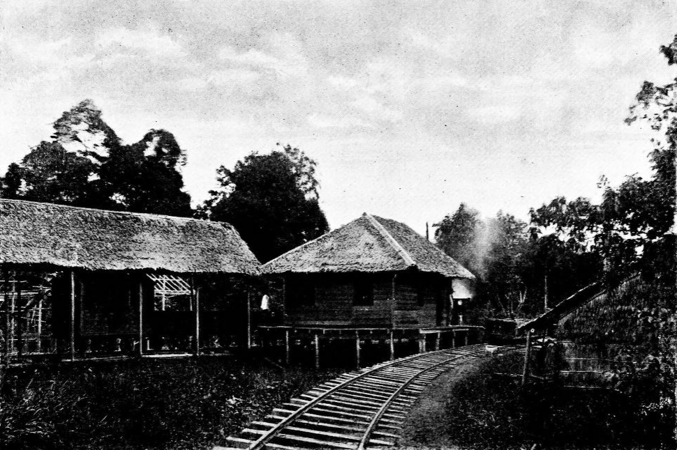 North Borneo Chartered Company: First Railway Station in North-Borneo